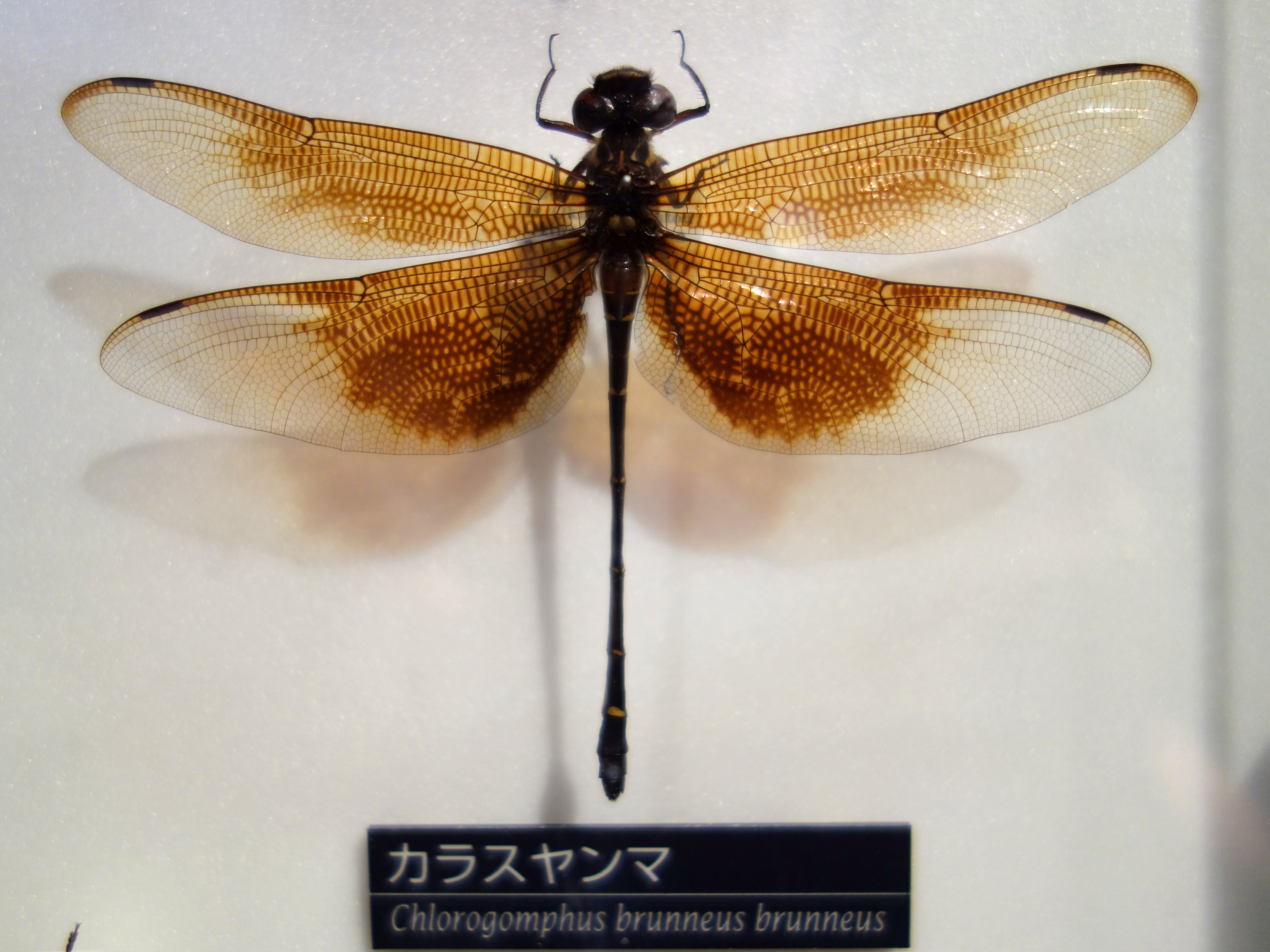 Exhibit in the National Museum of Nature and Science, Tokyo, Japan.